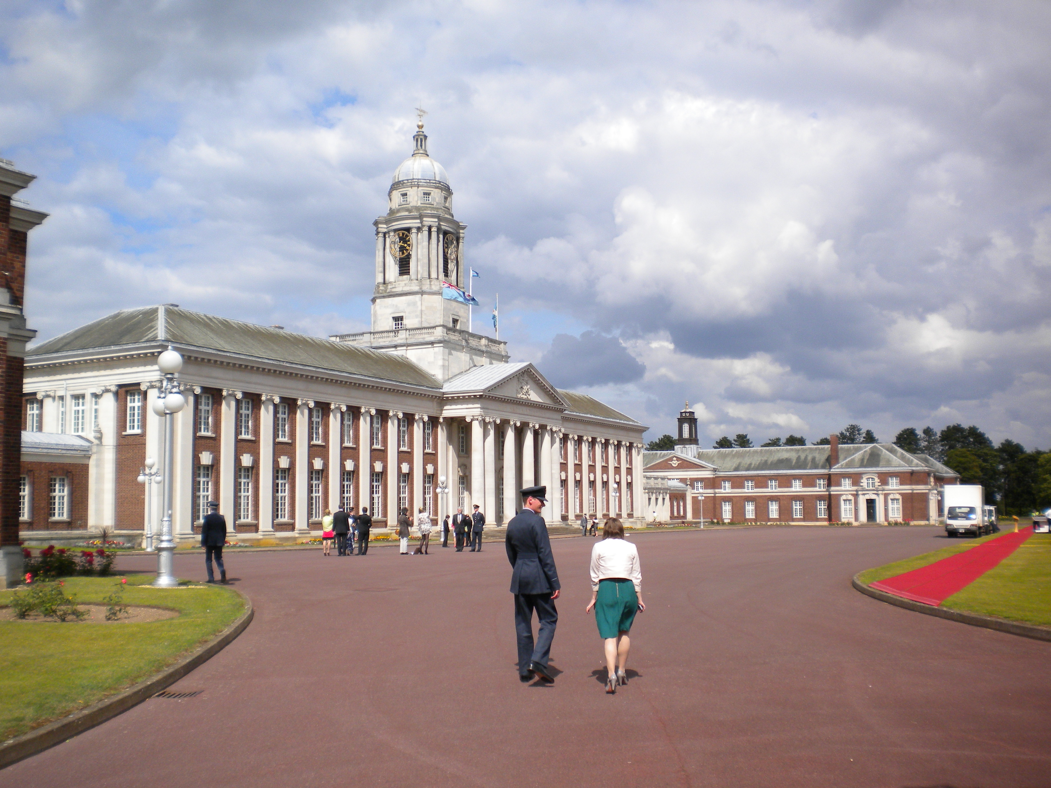 In front of College Hall at Cranwell, Lincolnshire, England. Graduated officers and families take photo opportunities in the afternoon after a passing out parade.